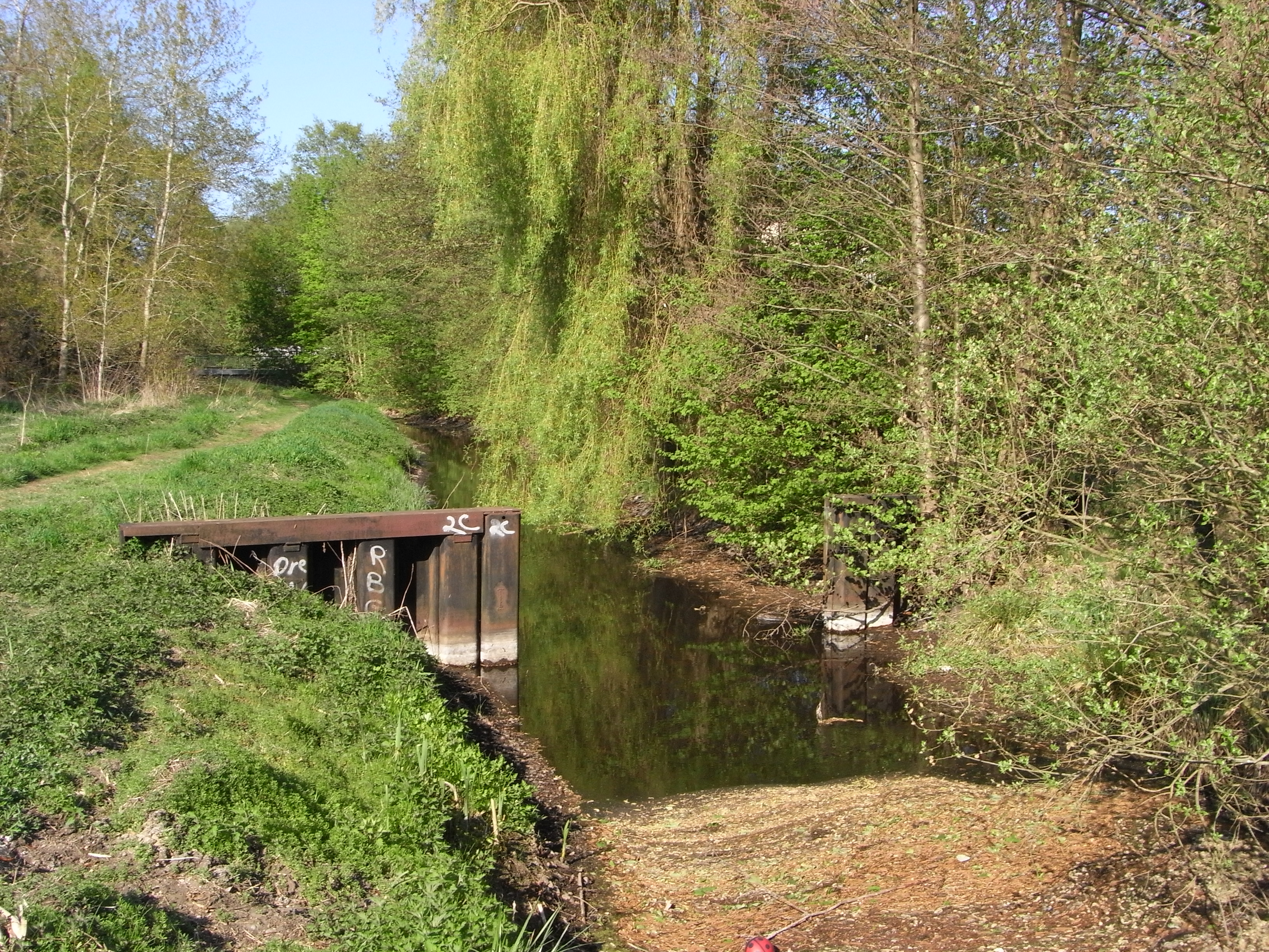 Kindelfließ south of Glienicke/Nordbahn with relicts of the former GDR border barriers